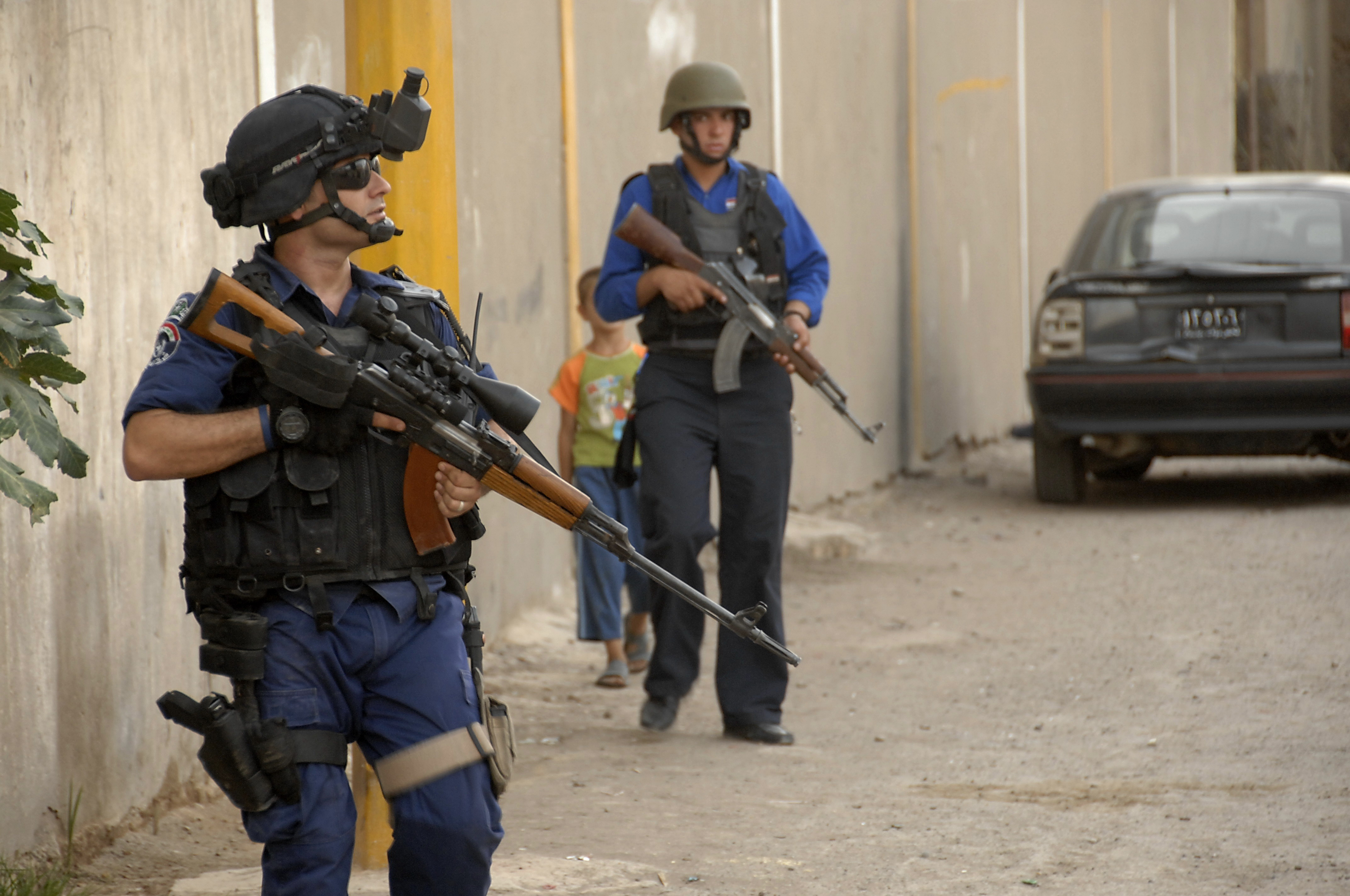 An Iraqi police officer armed with a Tabuk sniper rifle, participates in a combined patrol with U.S. Soldiers in the Ha'Teen district, Baghdad, Iraq, Aug. 4, 2008. U.S. Soldiers are with 2nd Platoon, Bravo Battery, 4th Battalion, 42nd Field Artillery, 1st Brigade Combat Team, 4th Infantry Division, attached to 2nd Brigade Combat Team, 101st Airborne Division. (U.S. Army photo by Spc. Charles W. Gill/Released)